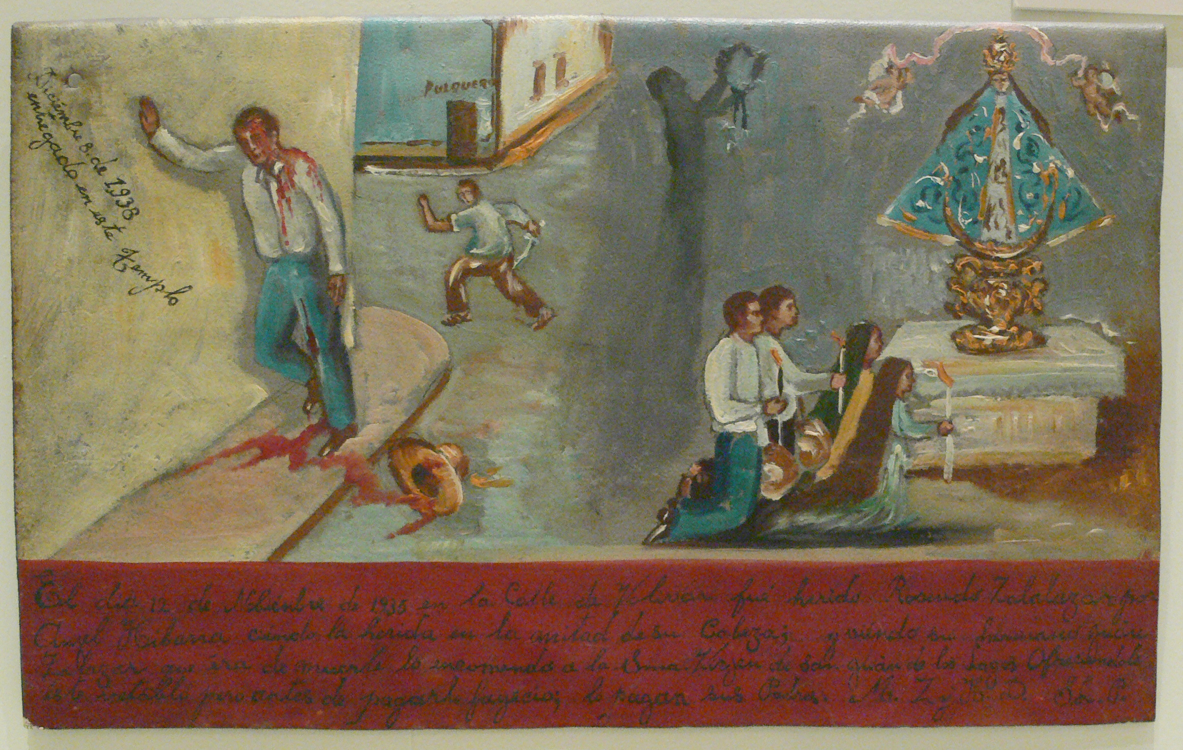 Tropenmuseum Amsterdam Votive painting for Our Lady of San Juan de los Lagos, Mexico